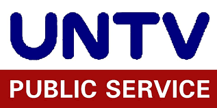 UNTV Public Service Logo